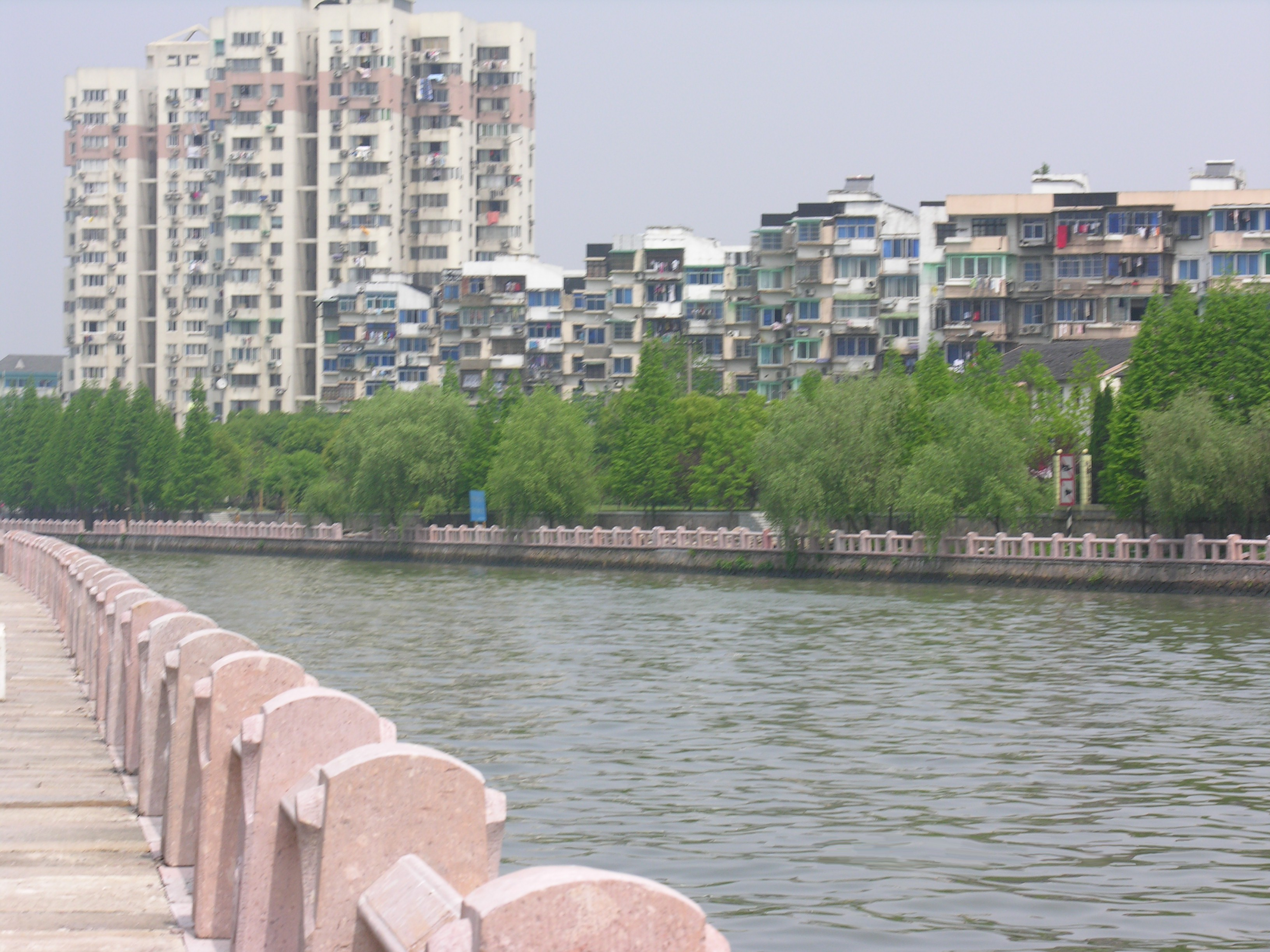 There are some buildings near Grand Canal of China. by IcaN